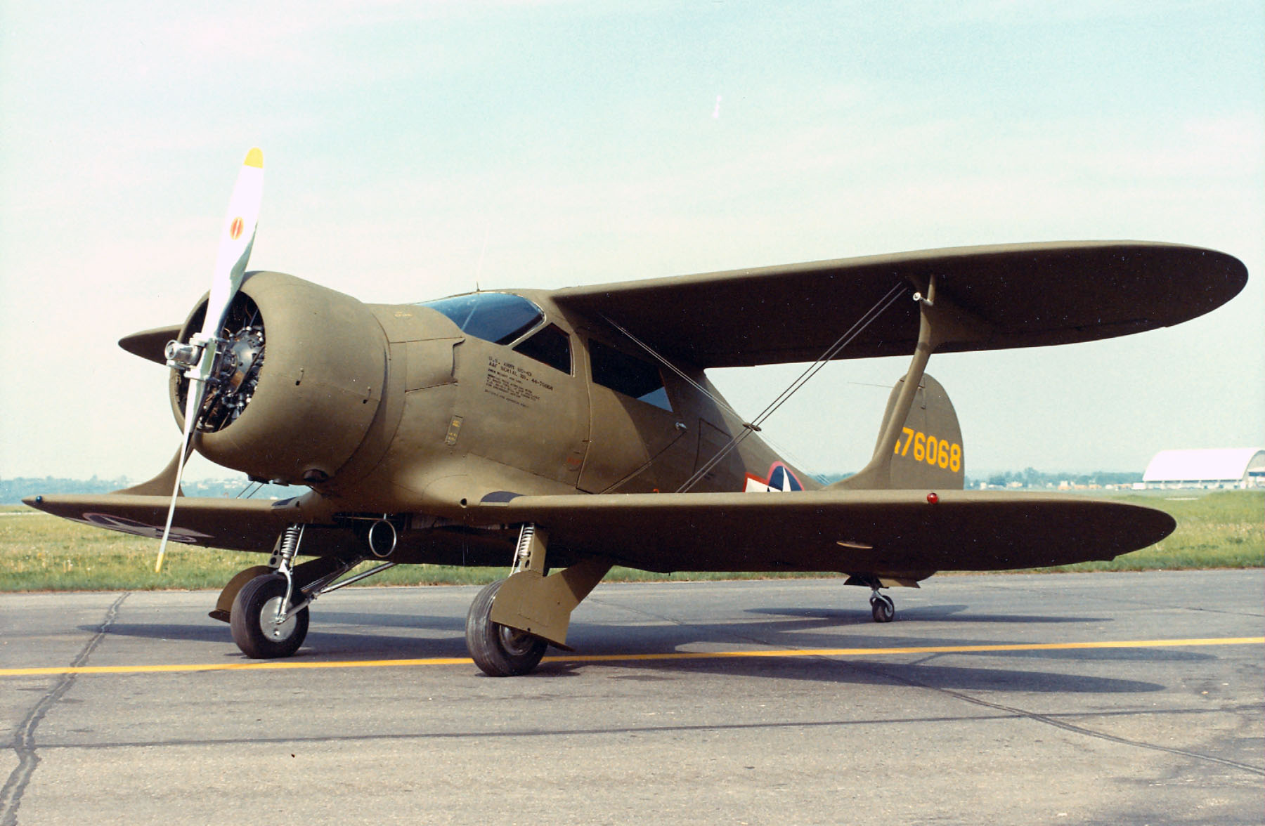 A Beechcraft UC-43 Traveler (s/n 44-76068) at the National Museum of the United States Air Force.